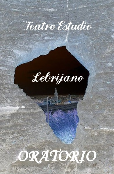 Logos intro page for the article Teatro Estudio Lebrijano" in Spanish Wikipedia.